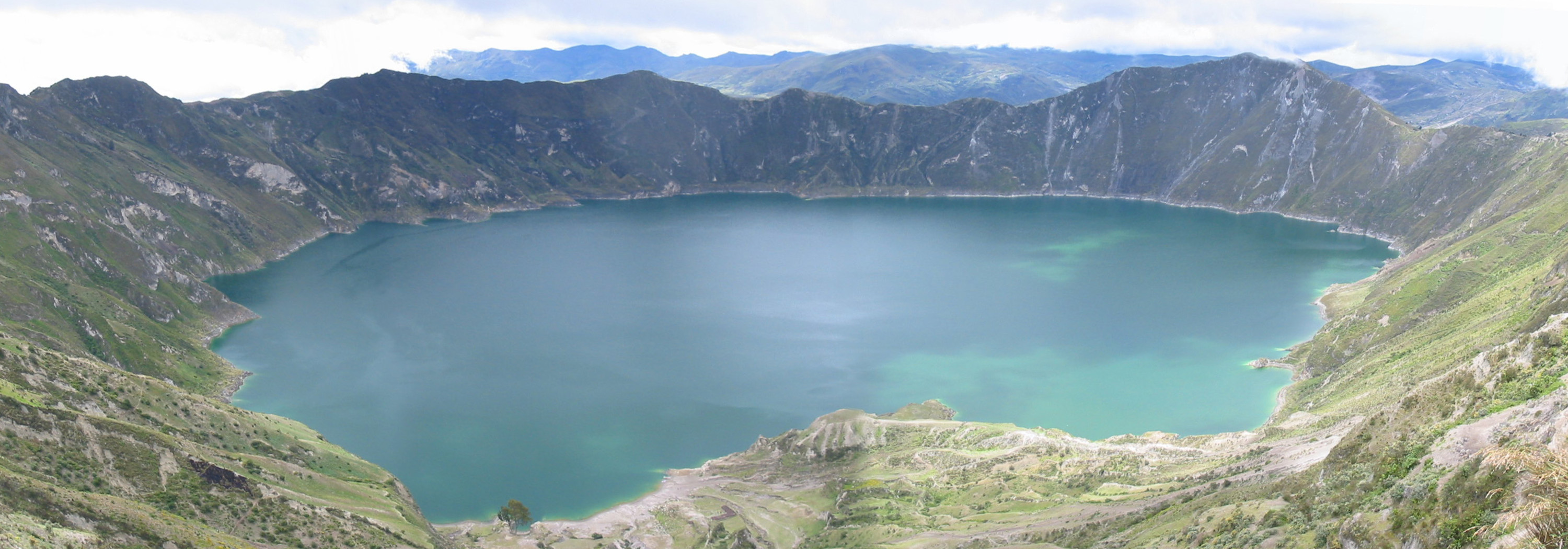 Panorama of Quilotoa, a lake-filled caldera in Ecuador.